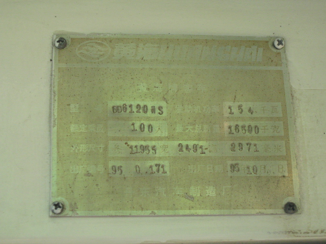 The manufacturing plate on a Huanghai DD6120HS.